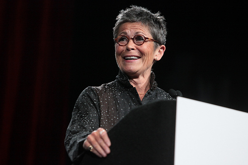 This photo was taking by Out & Equal Workplace Advocates for Out & Equal Workplace Advocates, appropriate for use with proper citation.